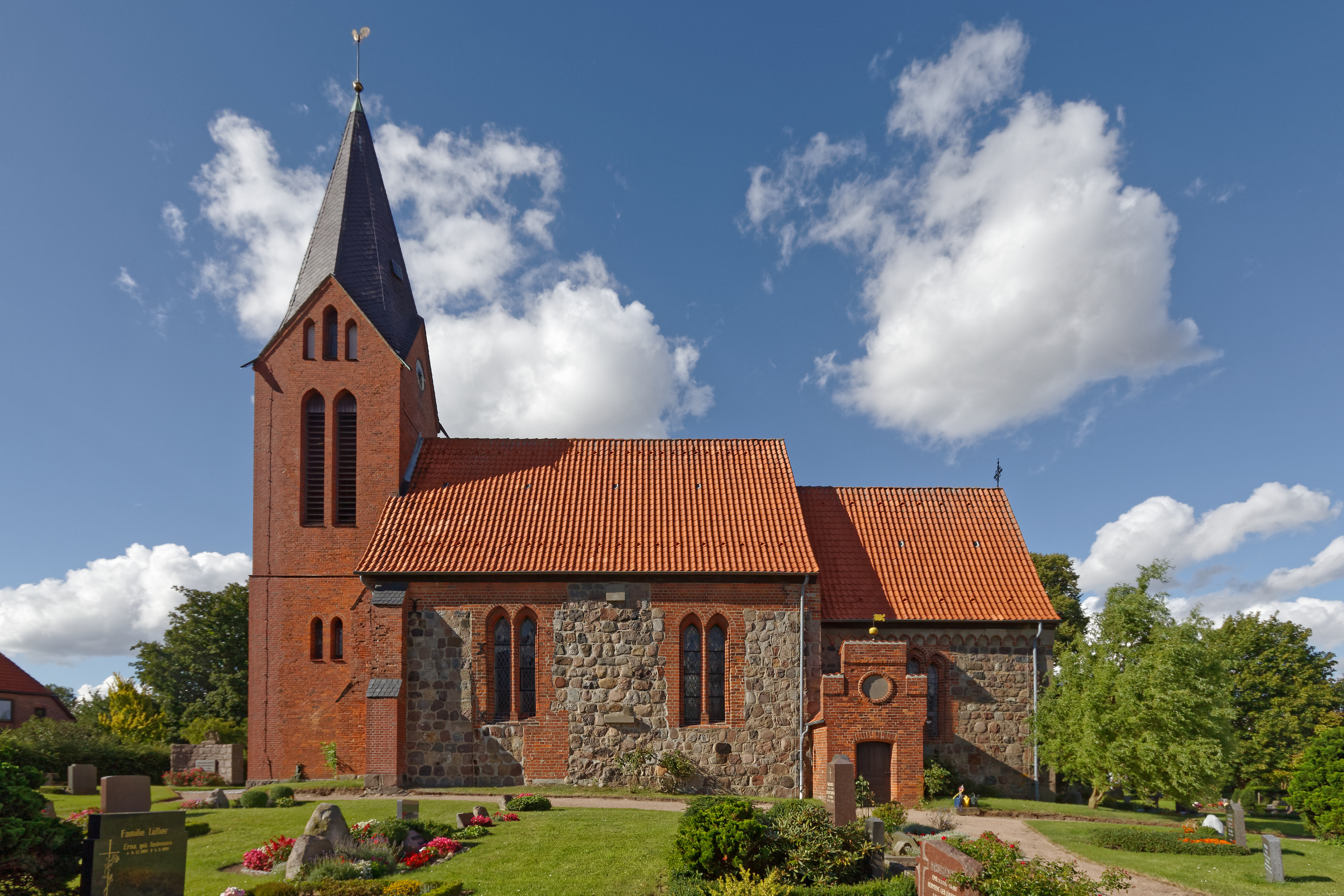 Church in Behlendorf, southern view